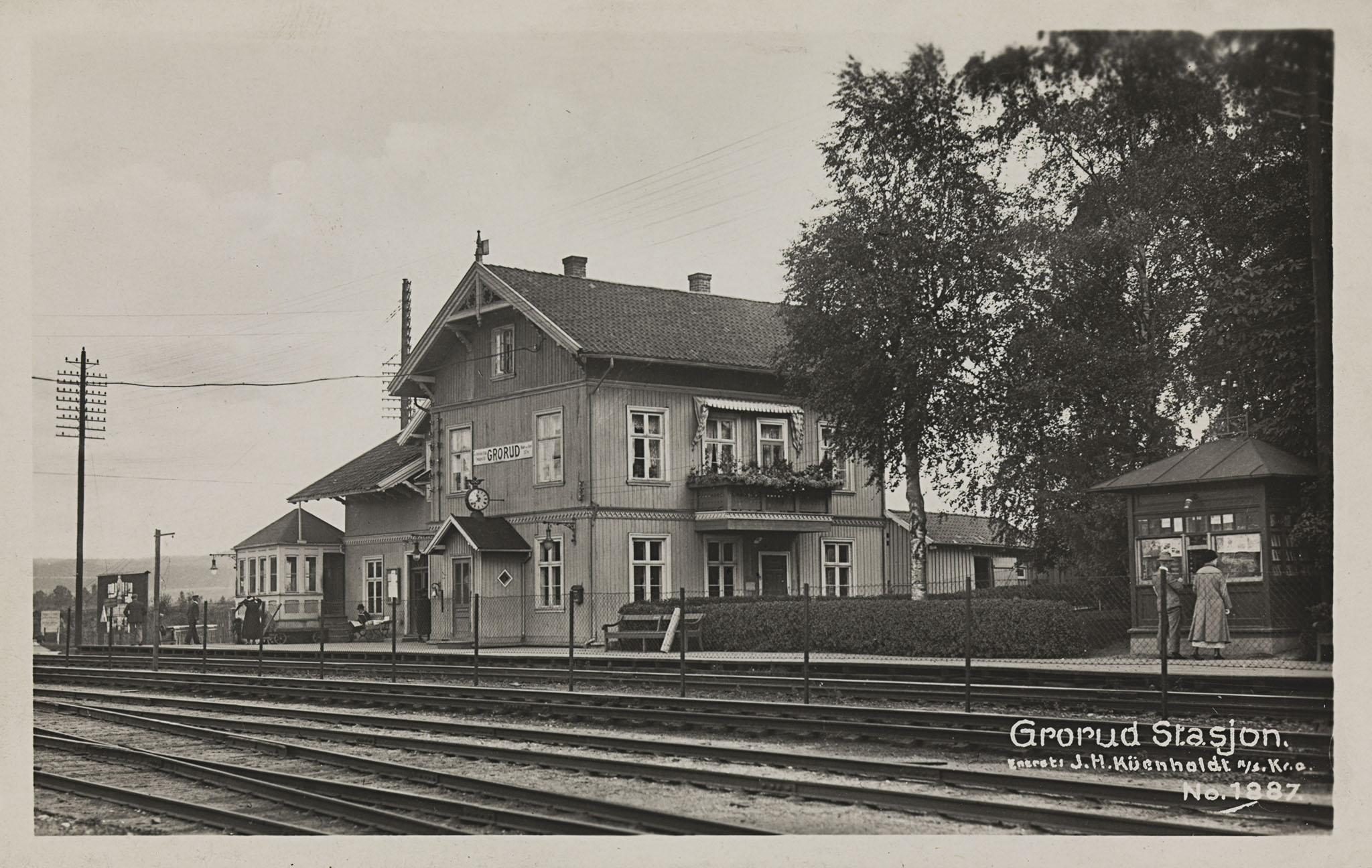 Tittel / Title: Grorud Stasjon Beskrivelse / Description: Postkort. Dato / Date: ukjent / unknown Fotograf / Photographer: ukjent / unknown Utgiver / Publisher: J. H. Küenholdt A/S Sted / Place: Oslo, Grorud, Grorud stasjon Eier / Owner Institution: Nasjonalbiblioteket / National Library of Norway Lenke / Link: Bildesignatur / Image Number: bldsa_PK03025